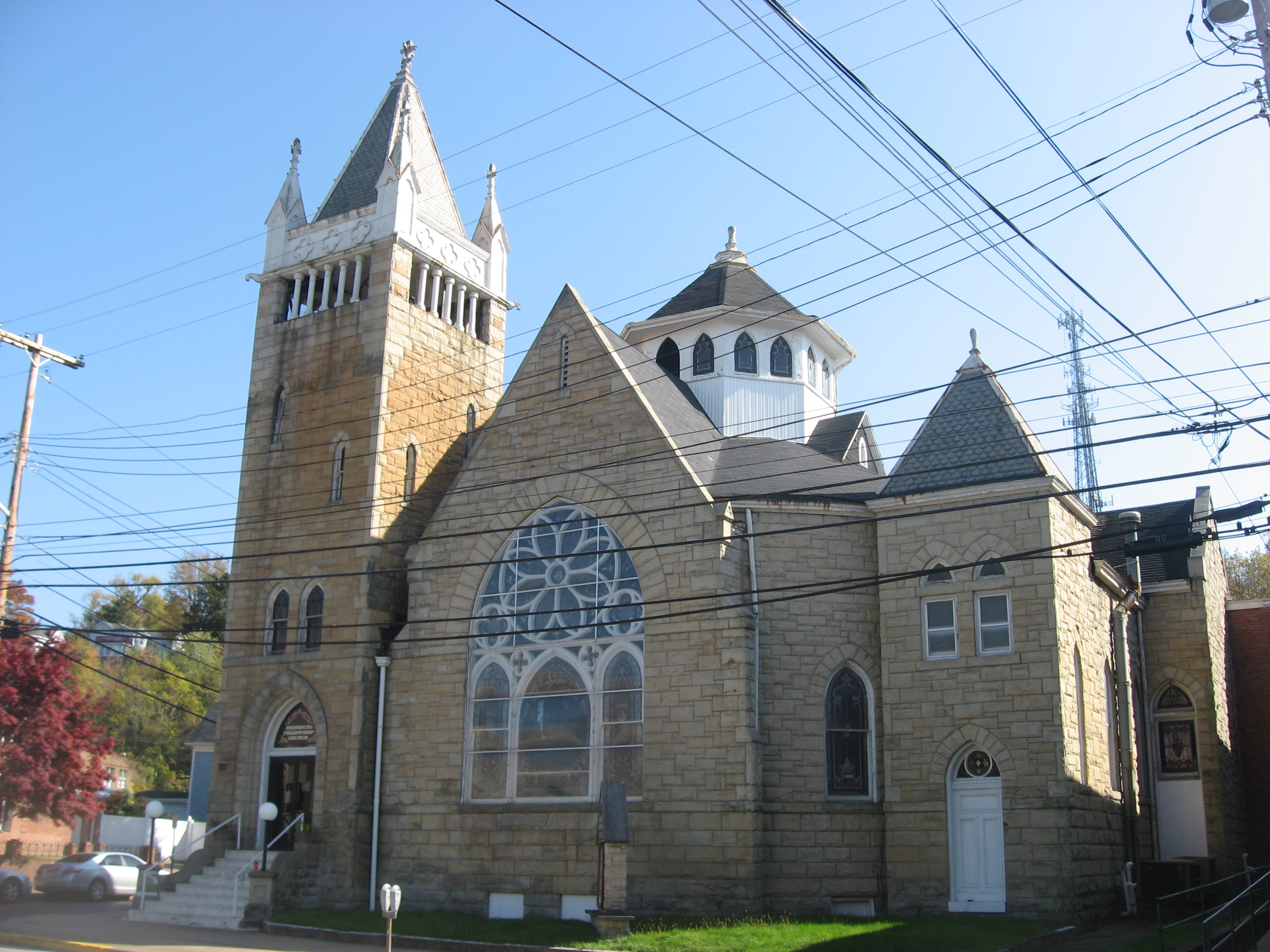 Front of the former First Presbyterian Church (now occupied by Emmanuel Fellowship Church), located at 946 Market Street in Parkersburg, West Virginia, United States. Built in 1894, it is listed on the National Register of Historic Places, and it is part of a Register-listed historic district, the Avery Street Historic District.